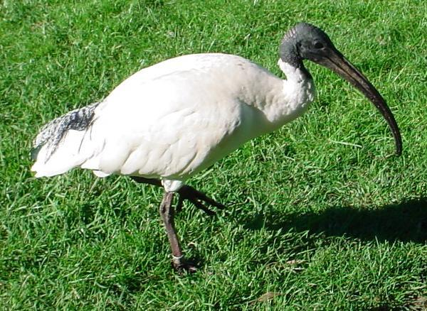 Australian White Ibis (Threskiornis molucca)